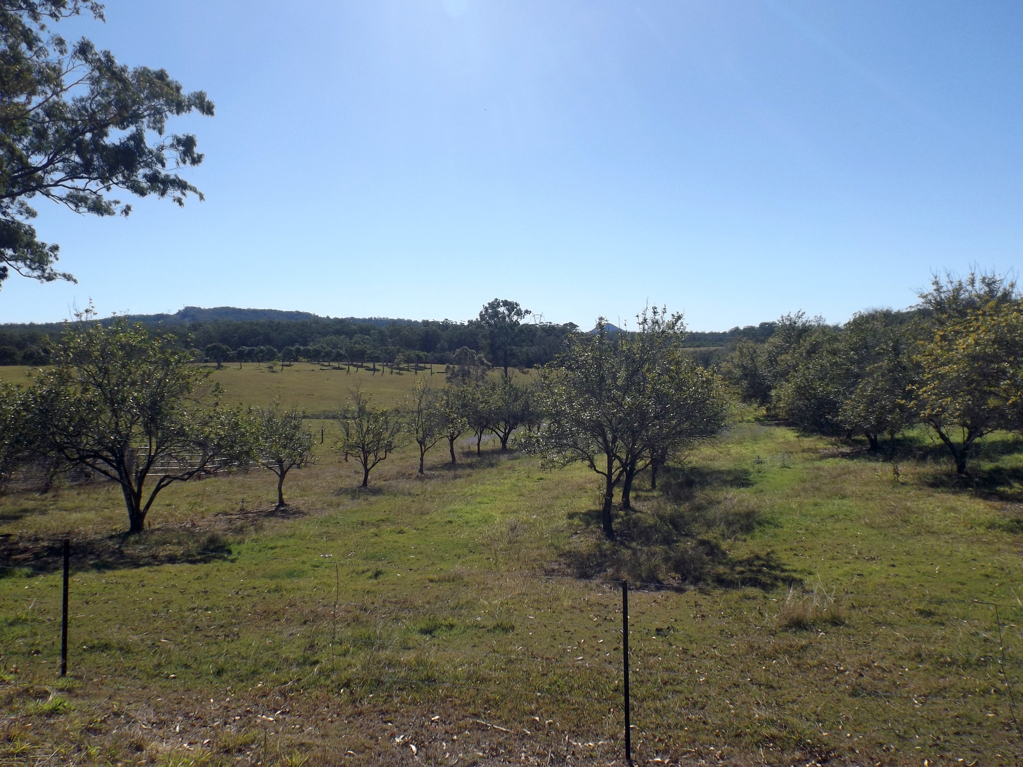 Photo of an olive orchard along Gamgee Road at Bracalba, Moreton Bay Region, Queensland, Australia.